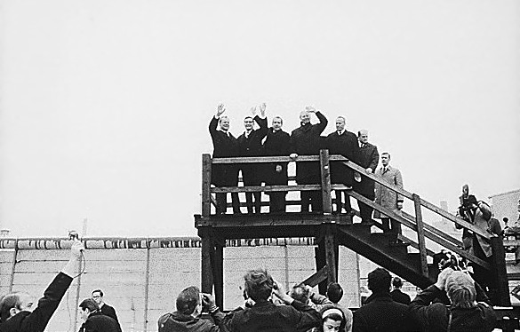 President Nixon visits the Berlin Wall at Moritzplatz, Berlin, 02/27/1969